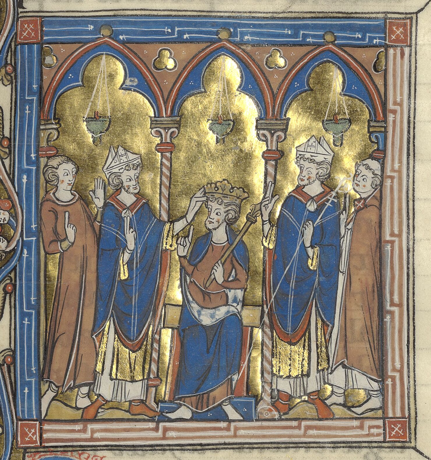 Miniature: Coronation of Amalric I